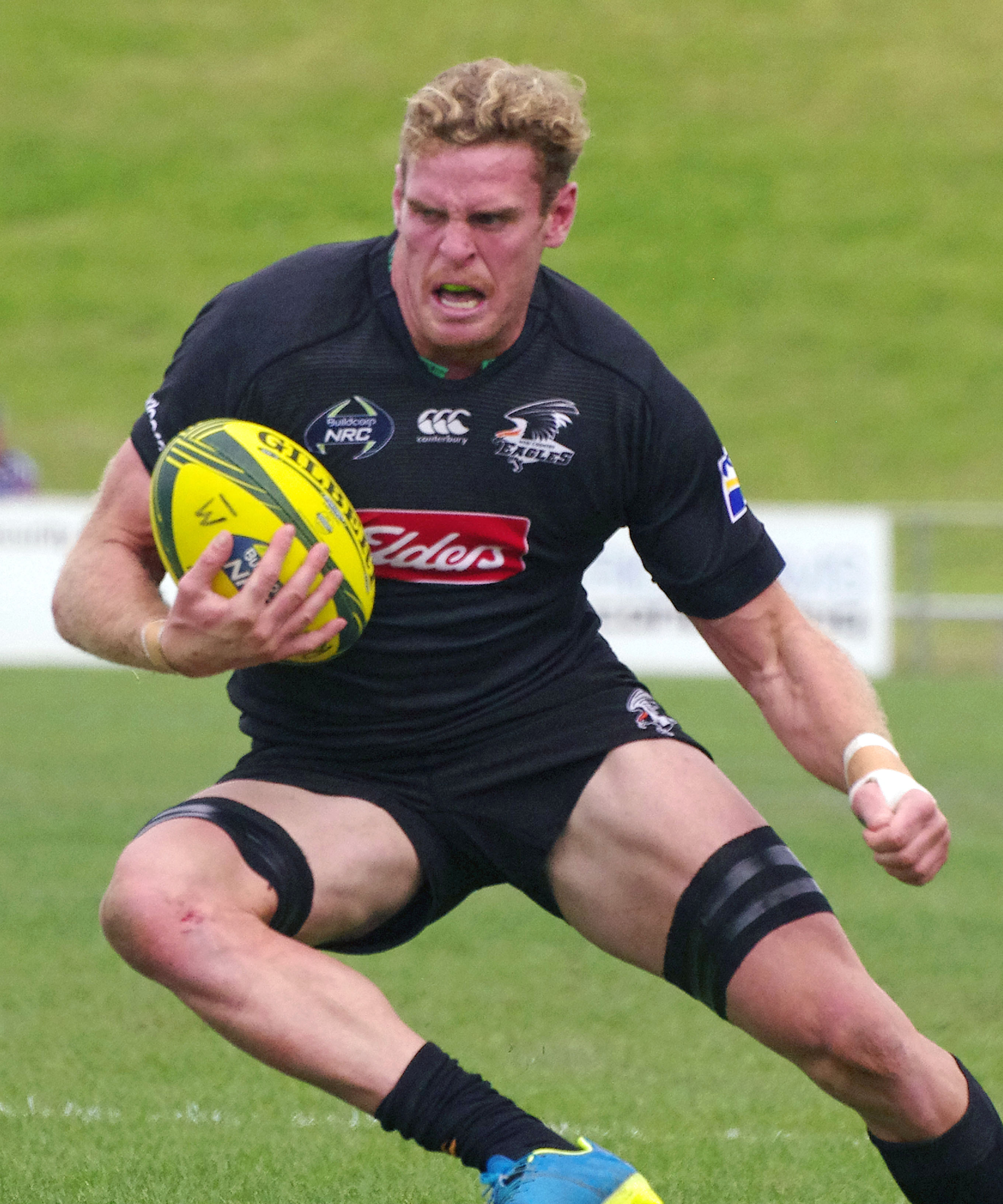 TOM CUSACK